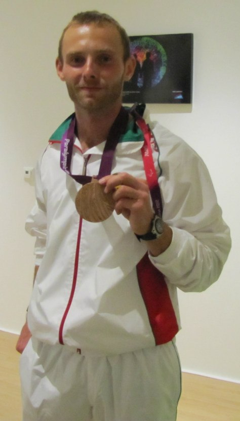 Aliaksandr Subota after medaling at the summer Paralympic Games (London, 2012)